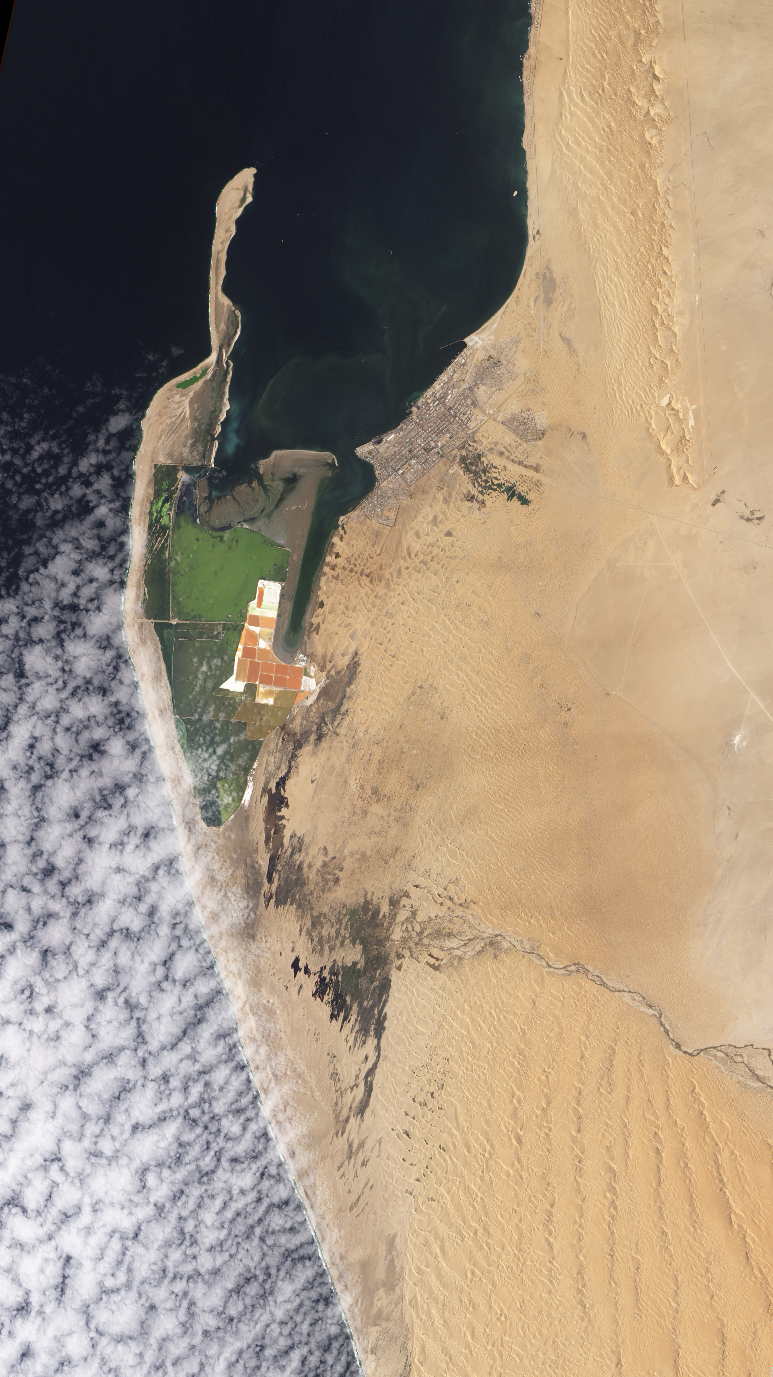 Natural-colour image of the Kuiseb River. Around Walvis Bay, where the Kuiseb has traditionally drained into the sea, salt works appear as rectangular shapes of orange and brown. Nearby shallow water appears green. South of the salt works, nature takes over. Irregularly shaped dark patches indicate standing water on the desert surface where water has apparently pooled at the end of the Kuiseb River. In the east, the river’s braided channels resemble dark, tangled threads. This image shows numerous sand dunes that have migrated past the Kuiseb and now border on Walvis Bay.